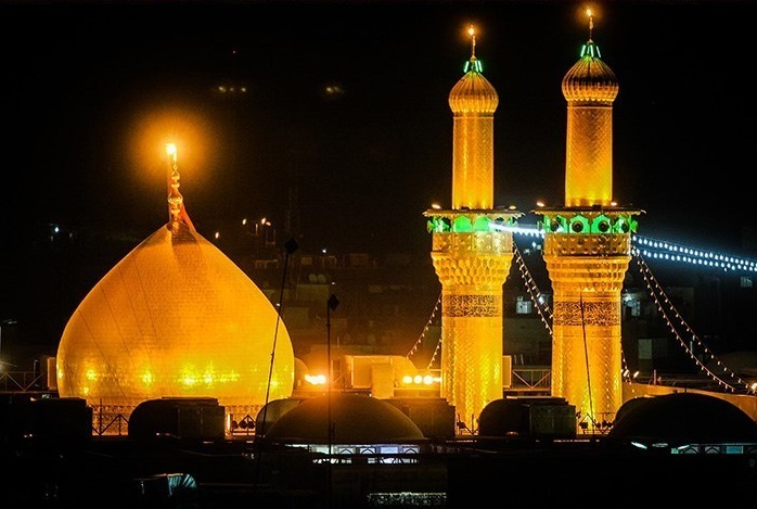 Ashura Mourning in Karabala, Iraq